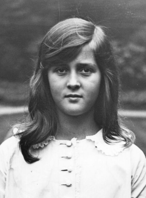 Princess Cecilie of Greece and Denmark (1911–1937)